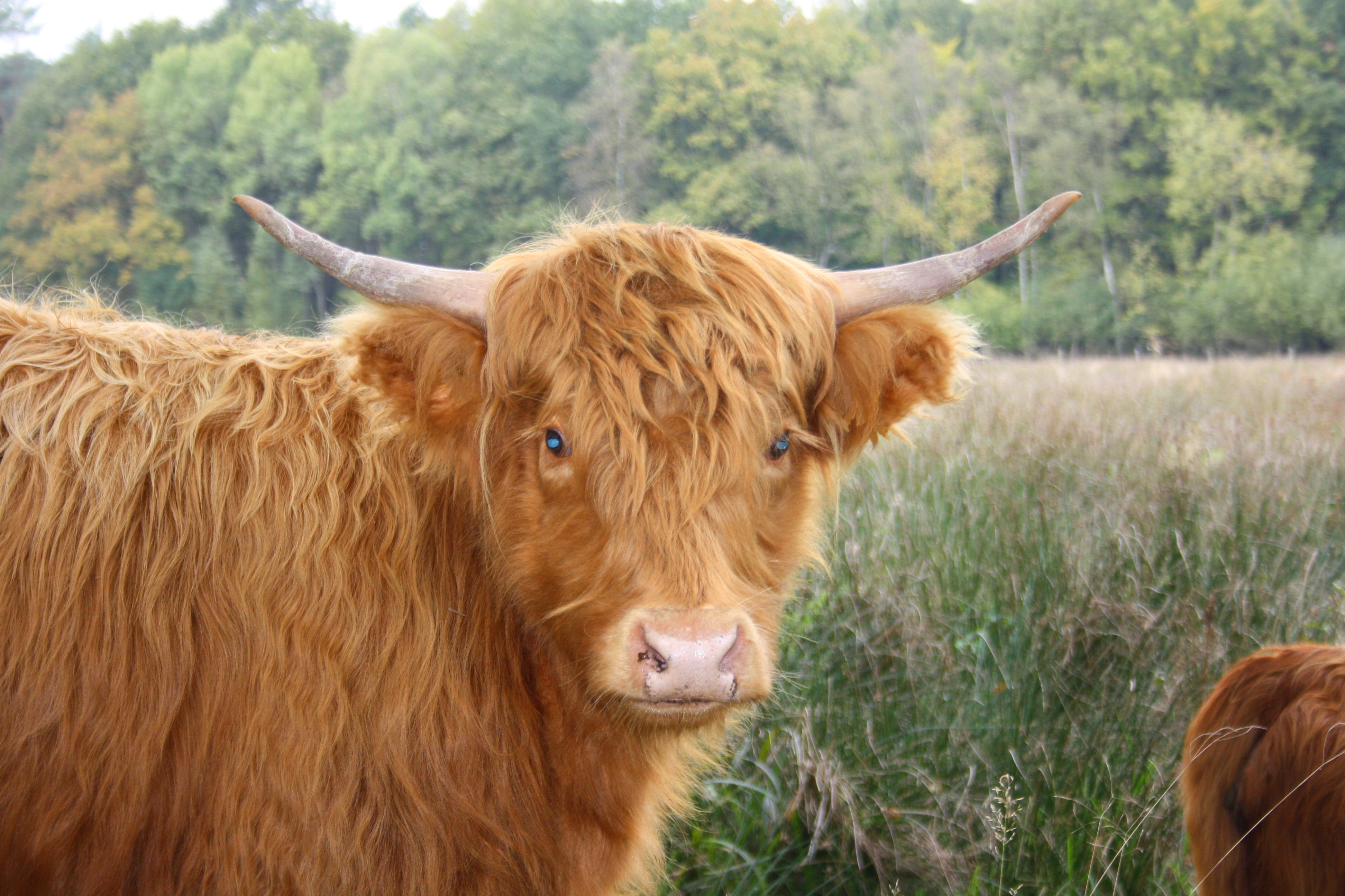 Highland cattle